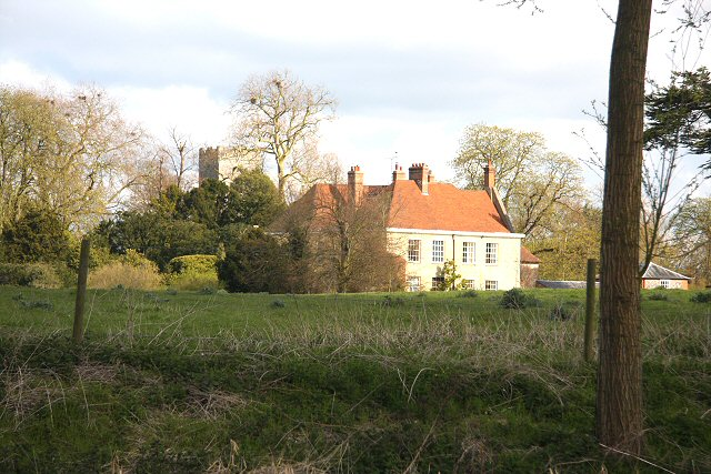 Ixworth Priory in Ixworth, Suffolk, England. A Grade I listed country house that was once an Augustinian priory.